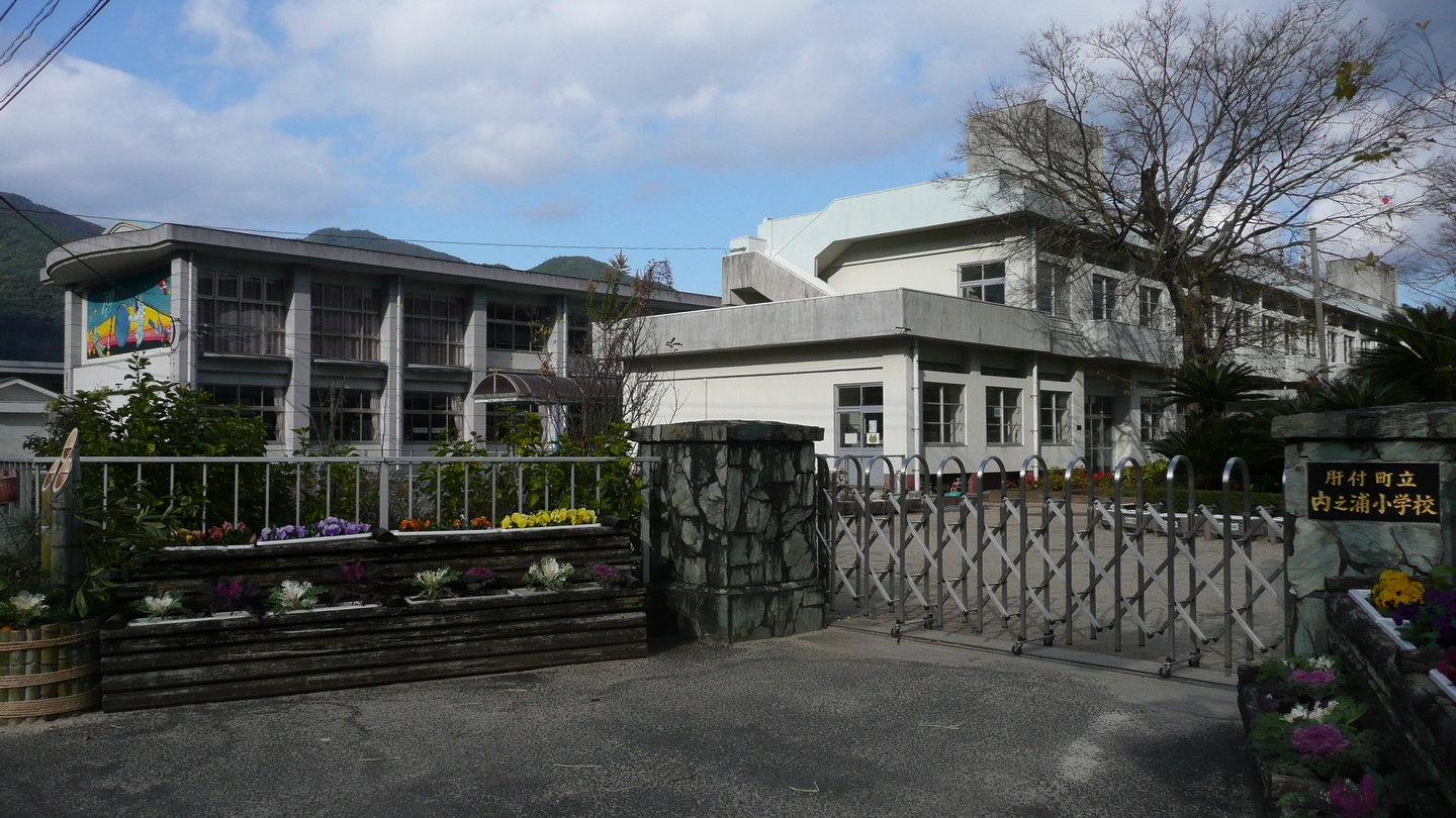 Uchinoura Elementary School (Kimotsuki Town, Kagoshima, Japan)